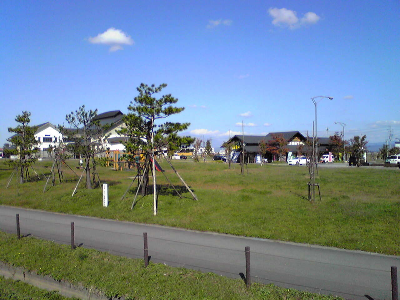 Michinoeki Shonai Mikawa in Mikawa Town, Yamagata Prefecture, Japan